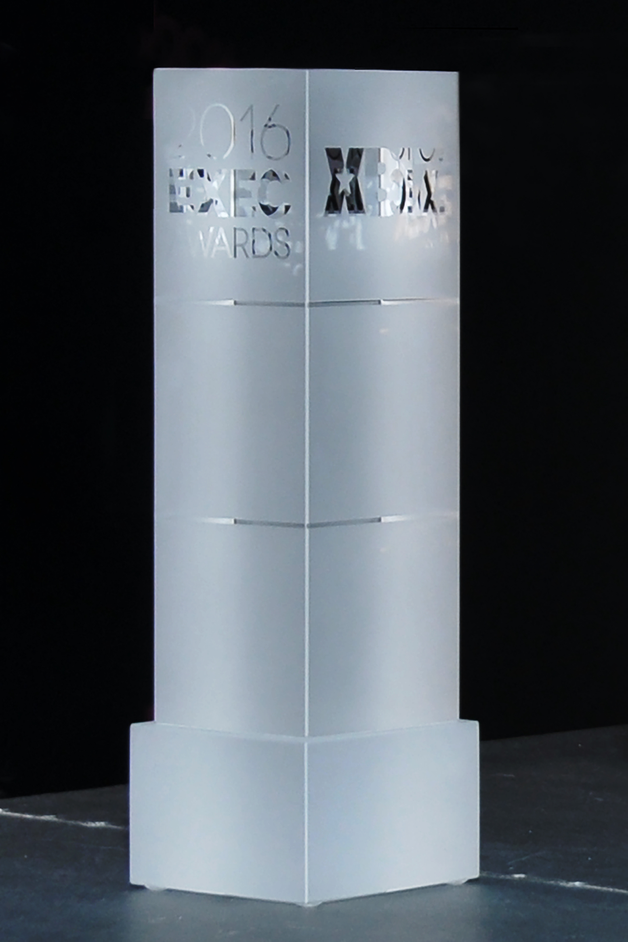 XBIZ Executive Leadership Award - Photo by Glenn Francis of